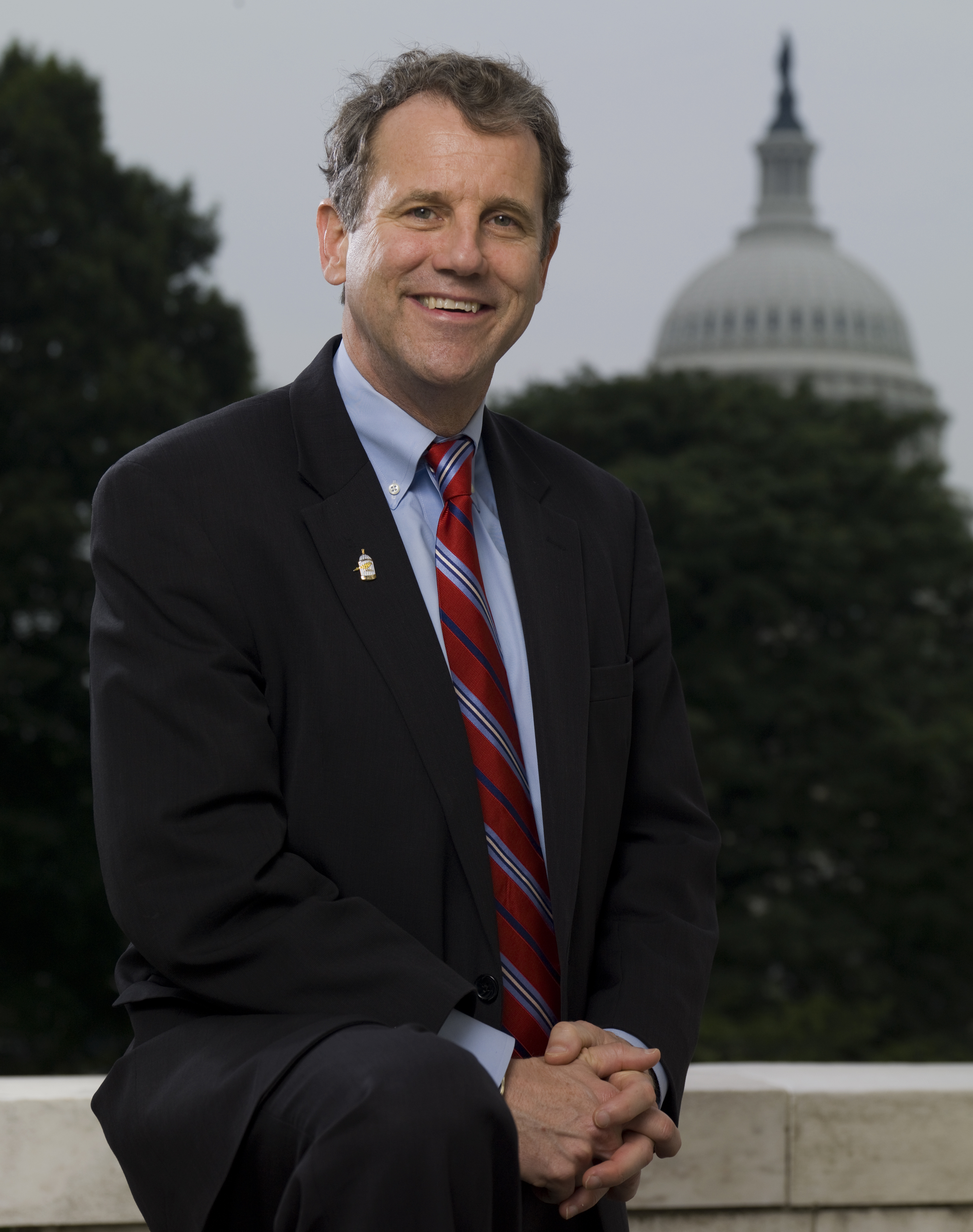 Official photo of Senator Sherrod Brown (D-OH).